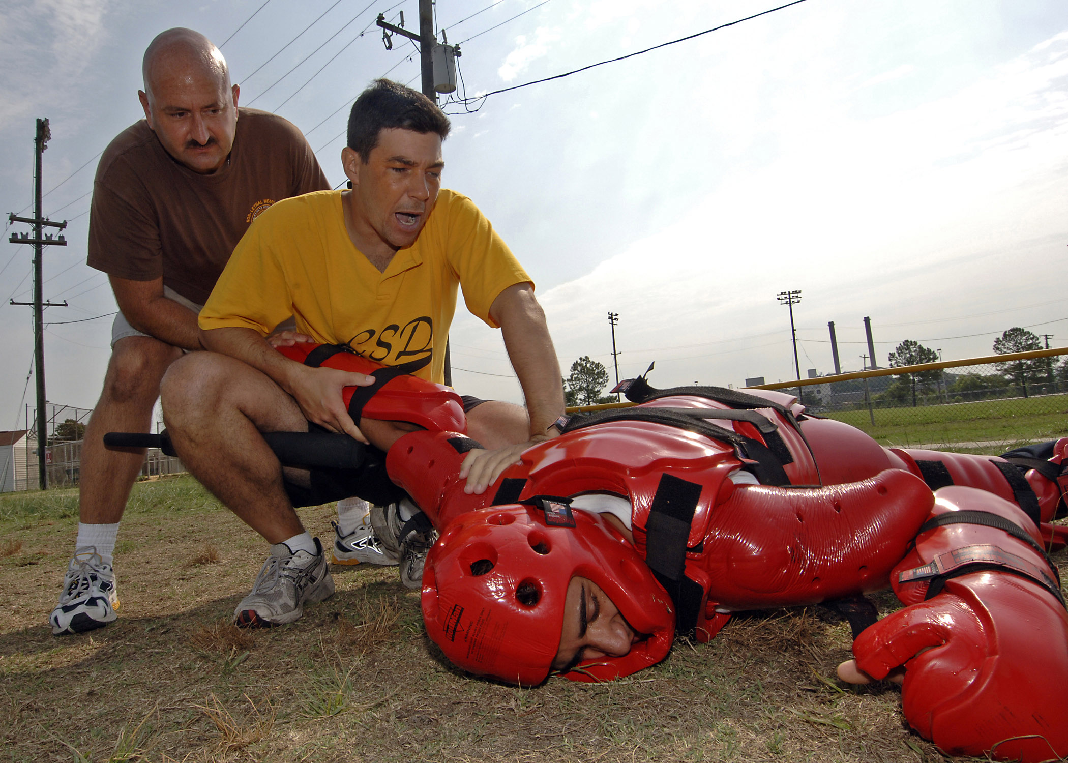 NORFOLK Naval Shipyards (July 20, 2007) - Operations Specialist 1st Class Dennis Marholz apprehends a mock suspect after being hit with pepper spray while Aviation Electronic Technician 1st Class Pete Ingram keeps close watch during a pepper spray testing evolution that marked the final stage in a three week series of training involving non-lethal weapons and the use of force continuum. The Sailors are members of the USS George Washington (CVN 73) Security Task Force and completed the course to become qualified to carry pepper spray during their duties. U.S. Navy photo by Mass Communications Petty Officer 2nd Class Michael D. Blackwell II (RELEASED)